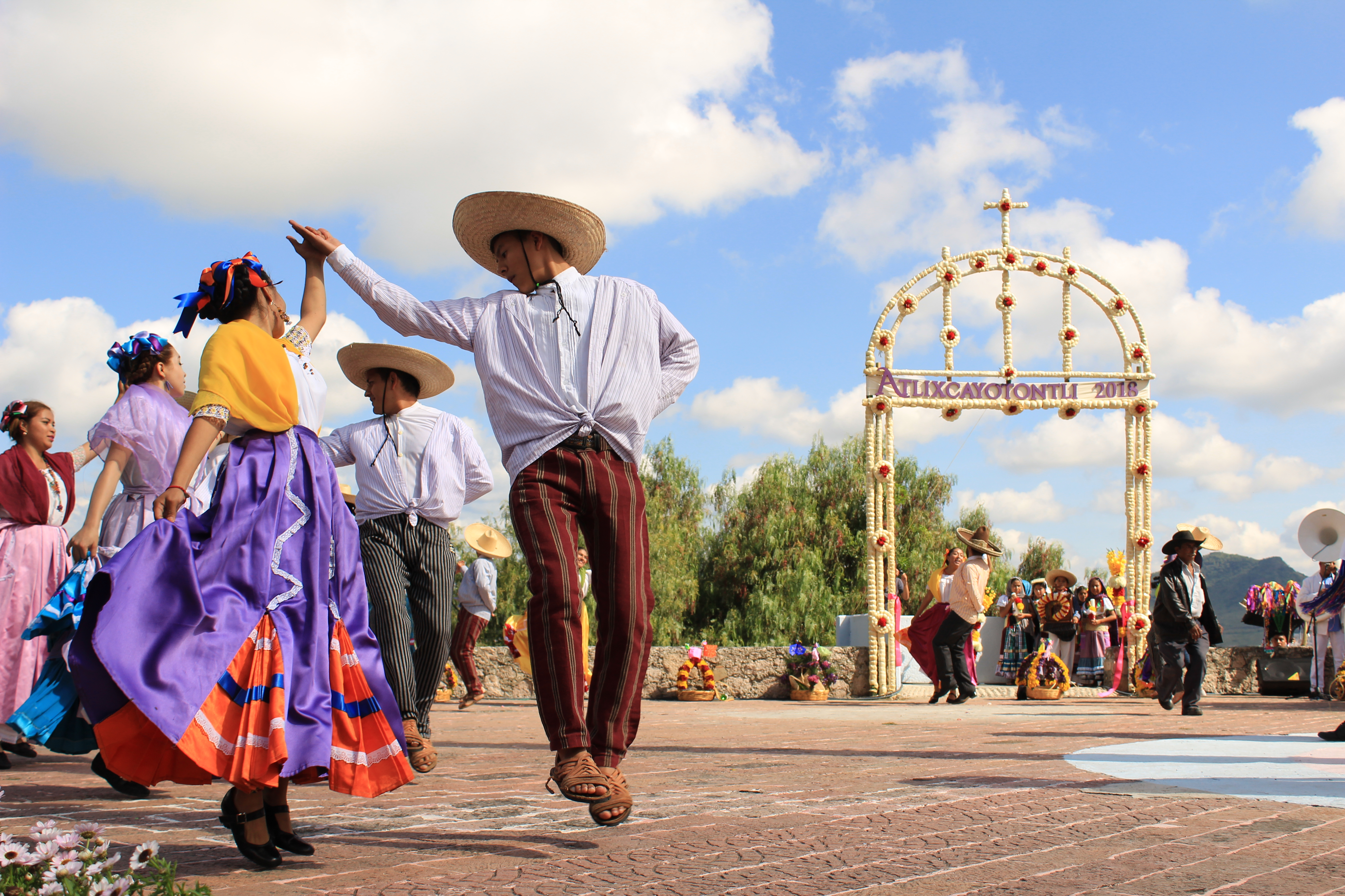 Chinas y Charros Atlixquenses dando la bienvenida a la celabración del Huey Atlixcáyotl en Atlixco, Puebla, México. This photo has been taken in the country: Mexico